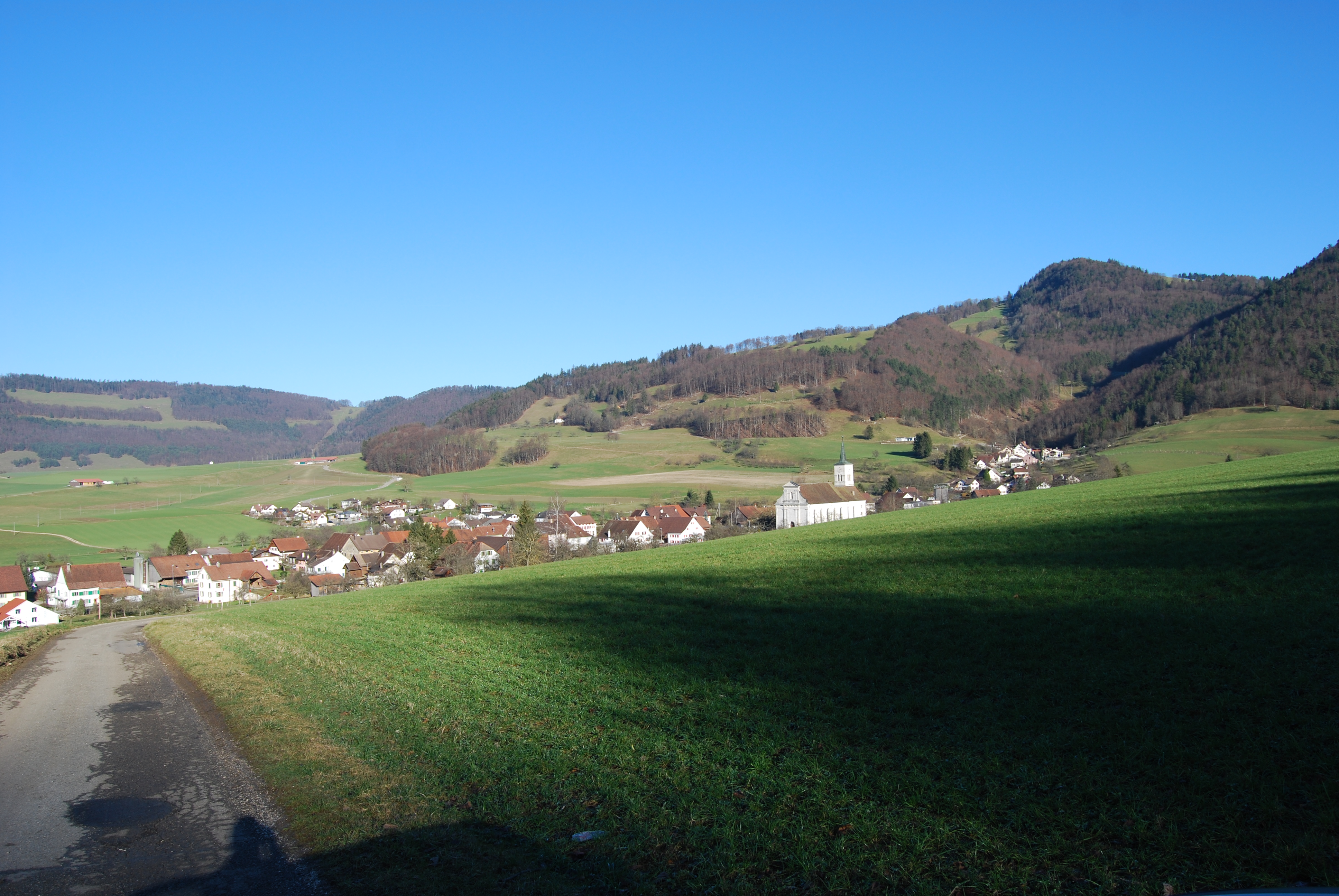 Mervelier, canton of Jura, Switzerland